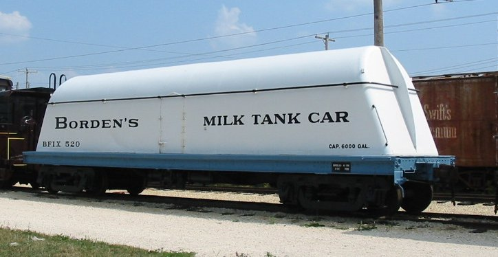 BFIX 520, a milk car preserved at the Illinois Railway Museum.